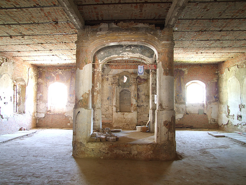 Small Synagogue in Kraśnik